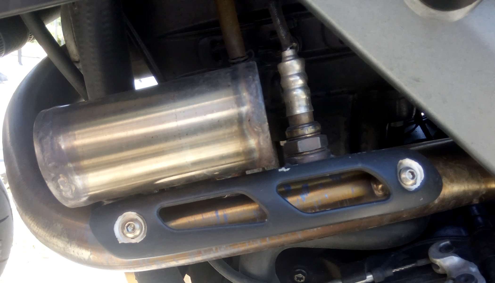 Exhaust pipe with parallel resonator, on the side you can see the lambda probe and the para-heat bulb tube down.